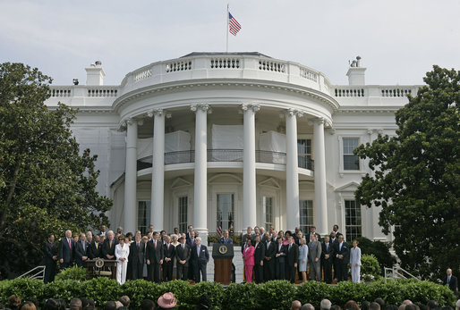 President George W. Bush speaks during the signing of H.R. 9, the Fannie Lou Hamer, Rosa Parks, and Coretta Scott King Voting Rights Act Reauthorization and Amendments Act of 2006, on the South Lawn Thursday, July 27, 2006.